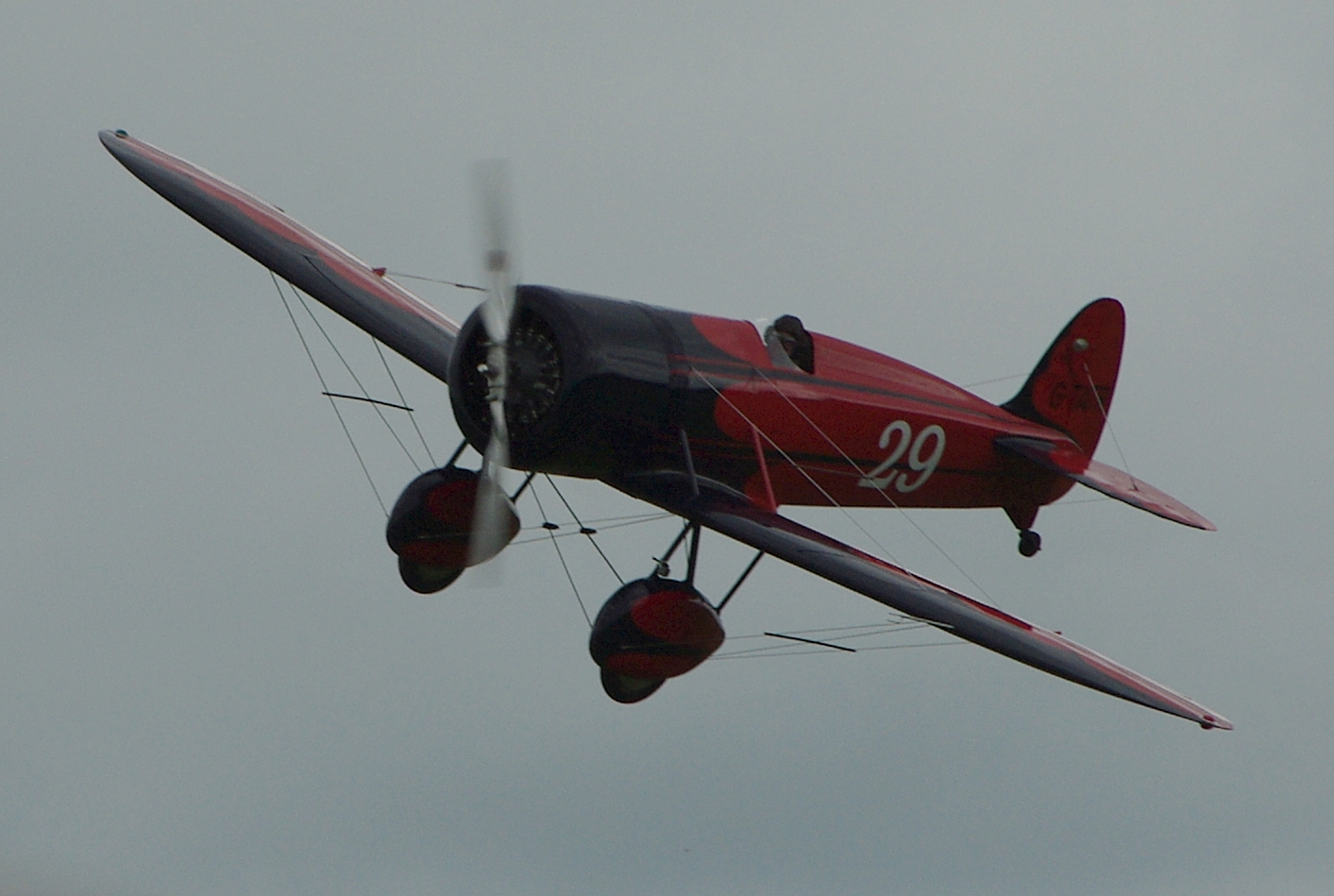 Travel Air (Curtiss-Wright) Type R Mystery Ship G-TATR at Old Warden, June 2014